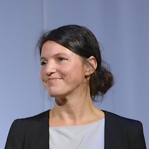 Nominated for the August Prize in the category of fiction in 2014. From left: Ida Börjel, Steve Sem-Sandberg, Sara Stridsberg, Carl-Michael Edenborg, Lyra Ekström Lindbäck and Kristina Sandberg.